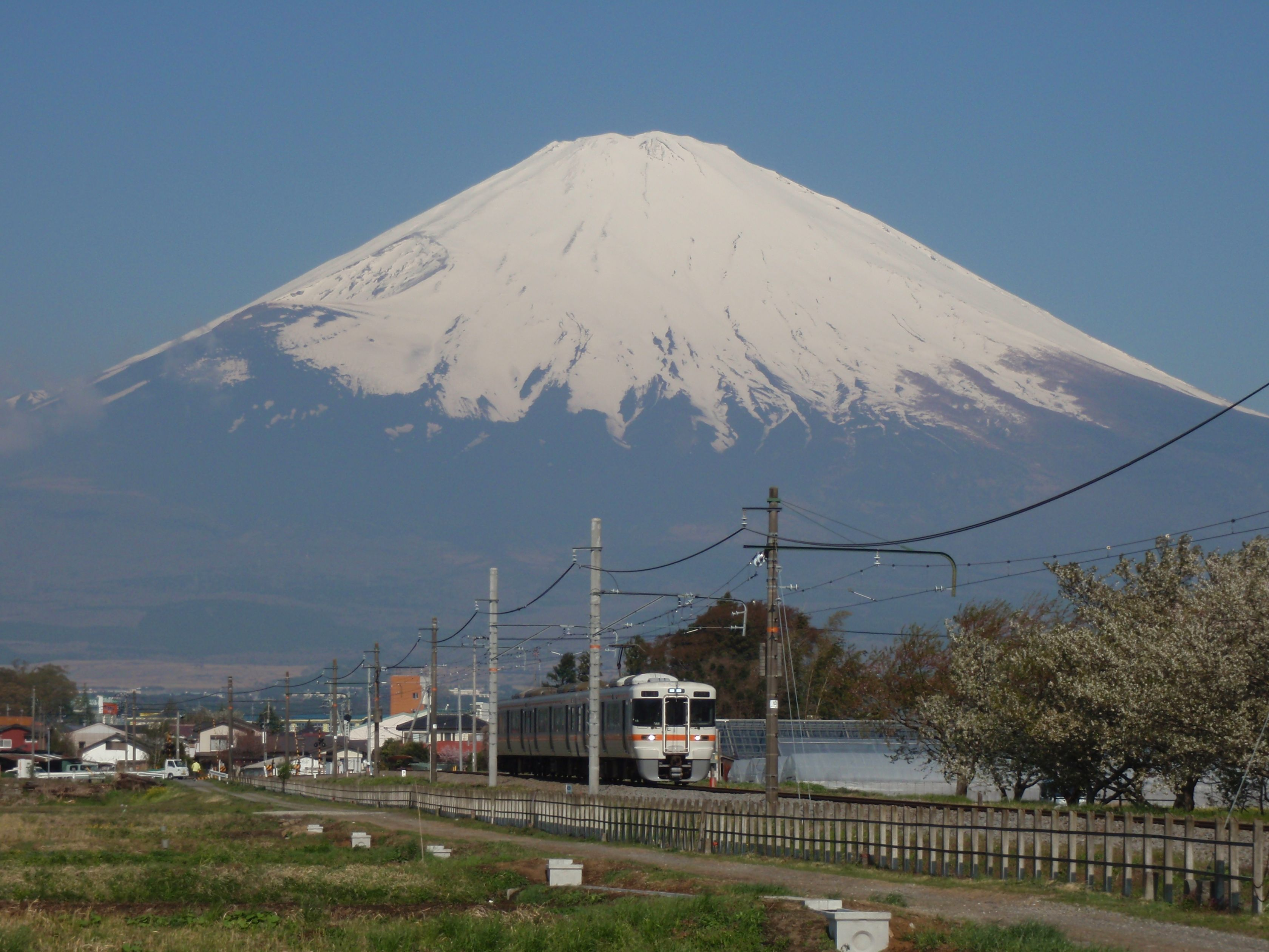 Central Japan Railway Company EMU Type 313 in Gotemba line against the background of Mt.Fuji.